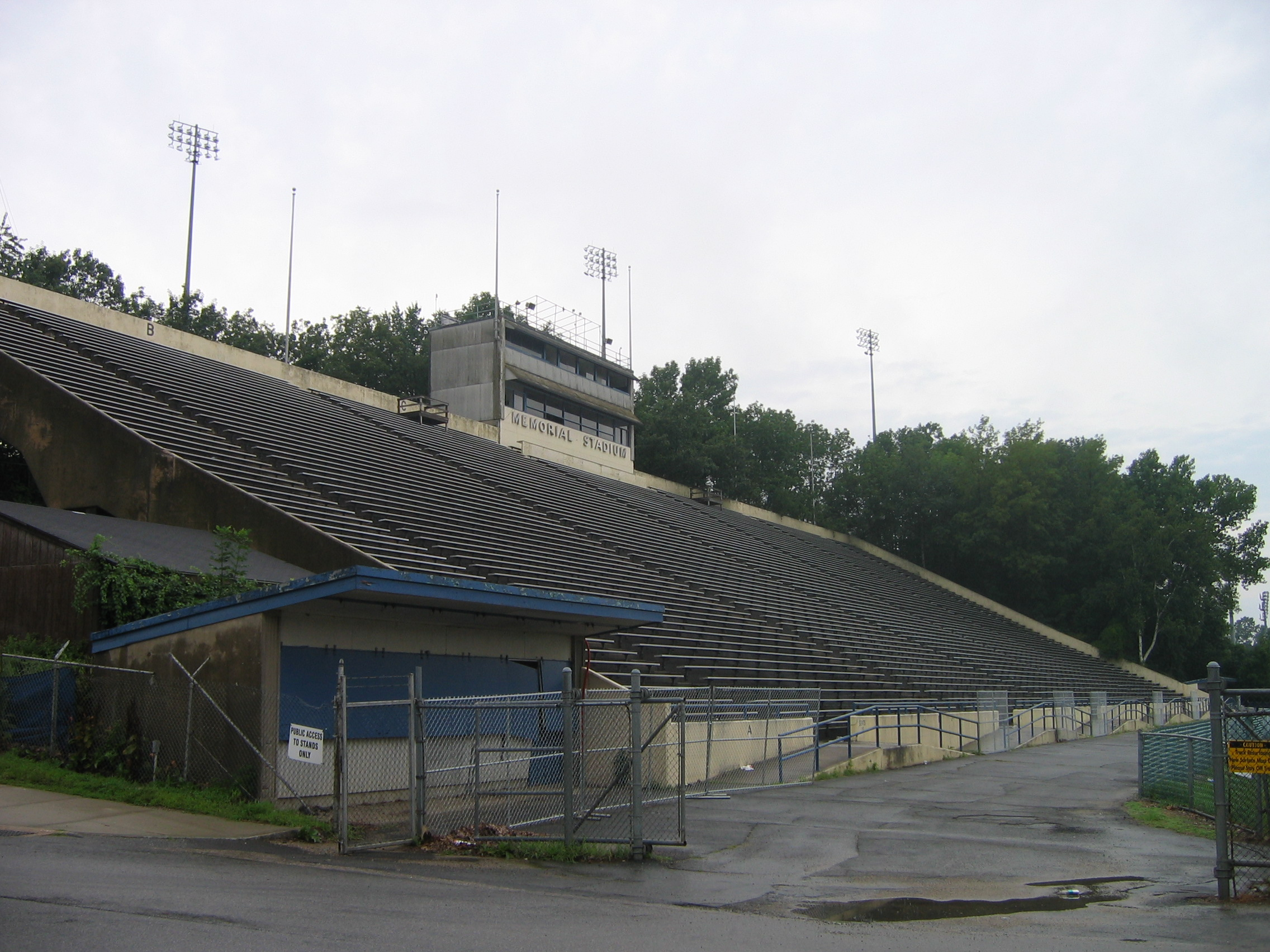 Football & Basketball Facilities UCONN on-campus Stadium